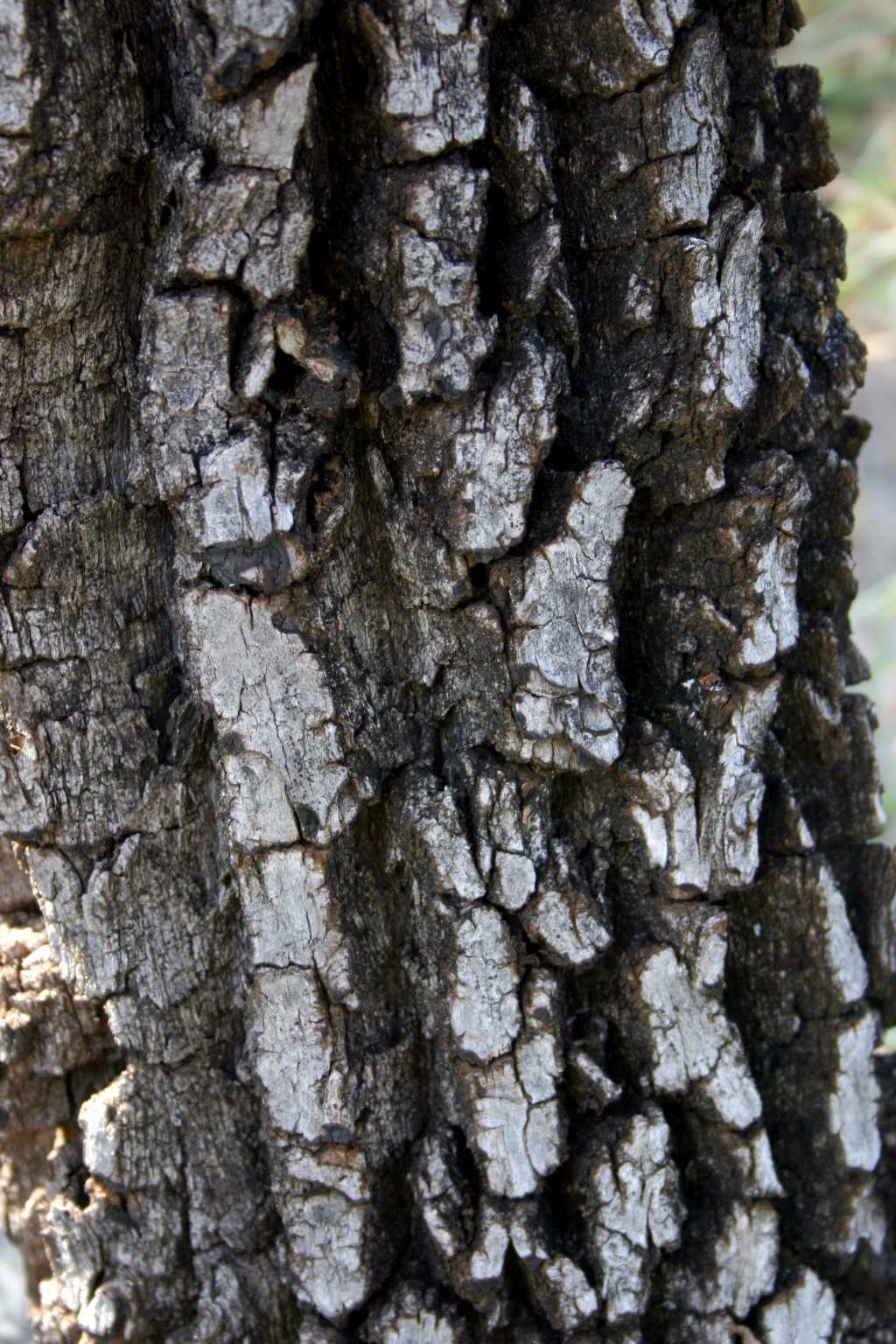 Trunk of Maytenus heterophylla, small Magaliesberg tree